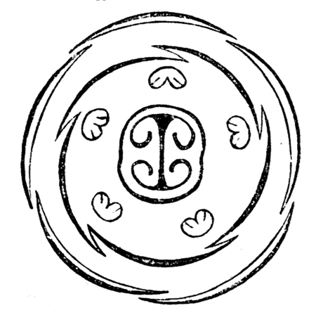 flower diagram of Convolvulus arvensis